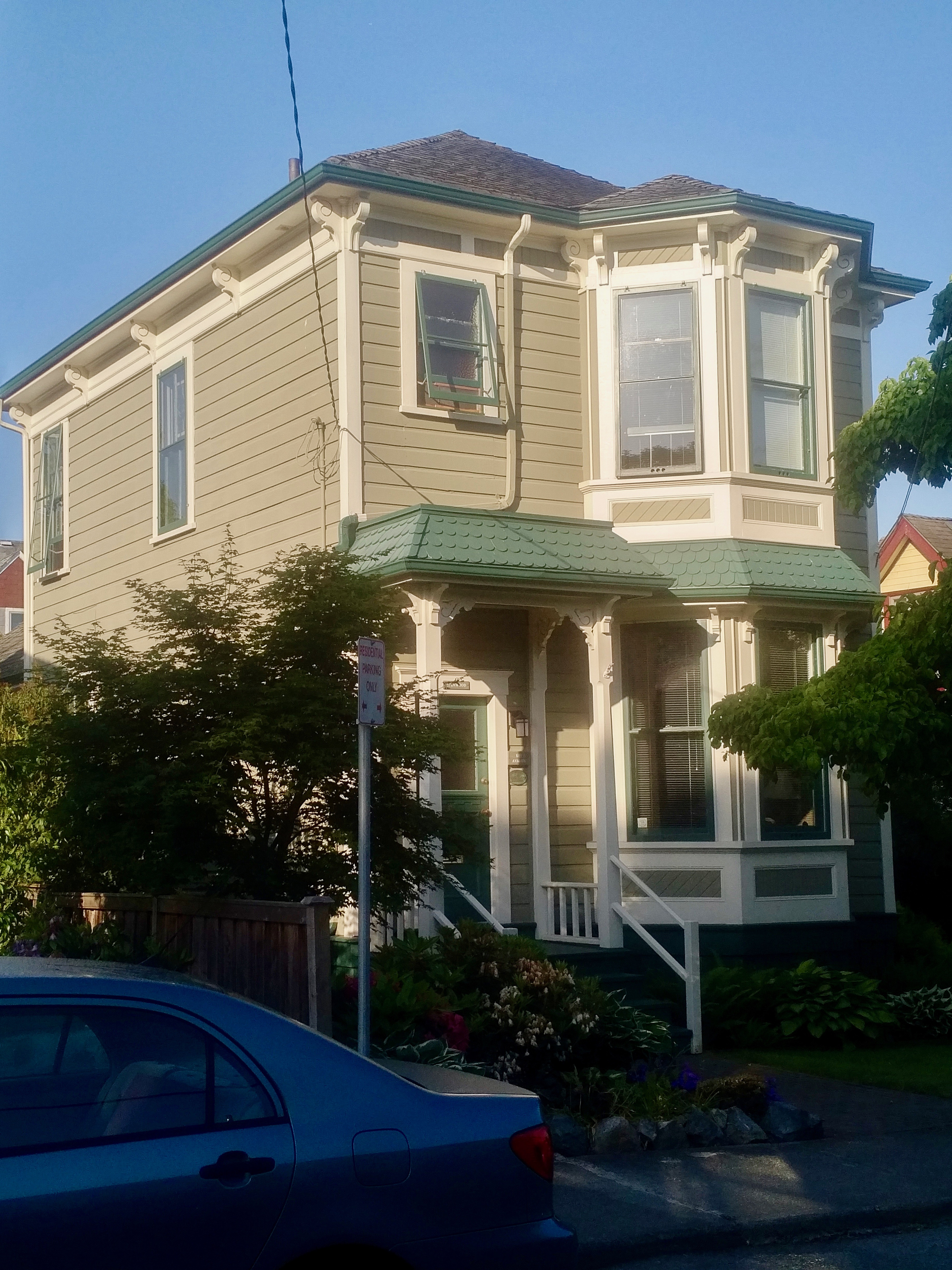 619 Avalon Road